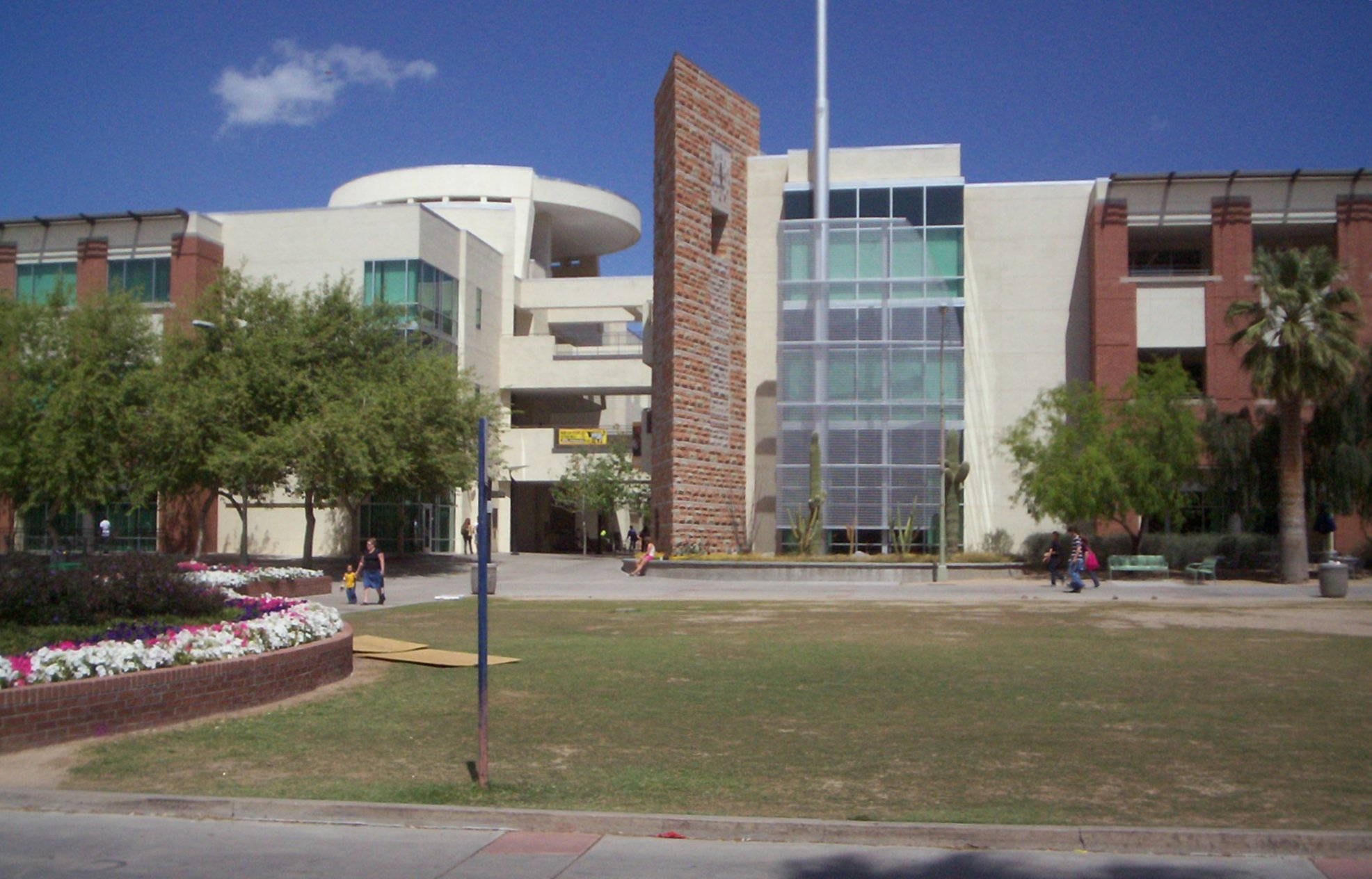 View of the Student Union at the University of Arizona. Own work by uploader.